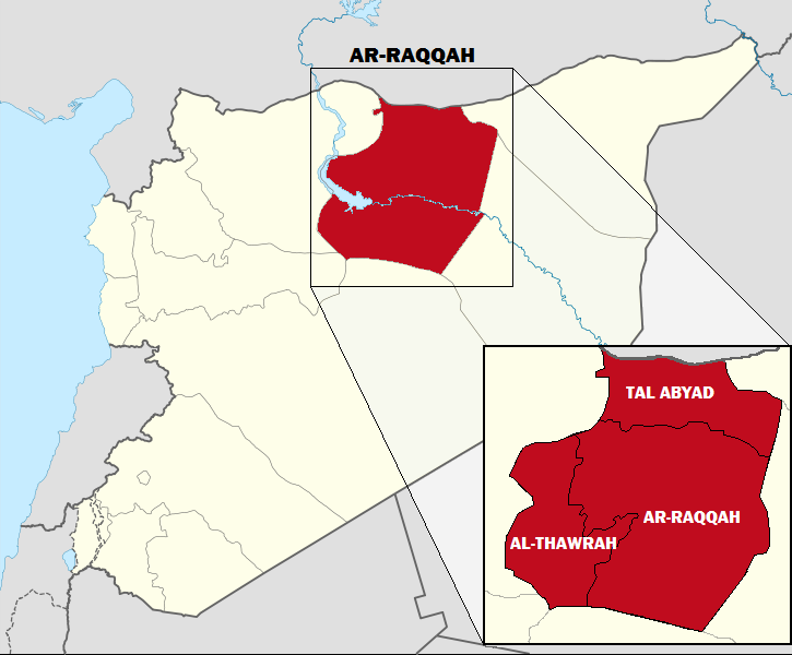 Ar-Raqqah Governorate on Syria Map with Governorates.